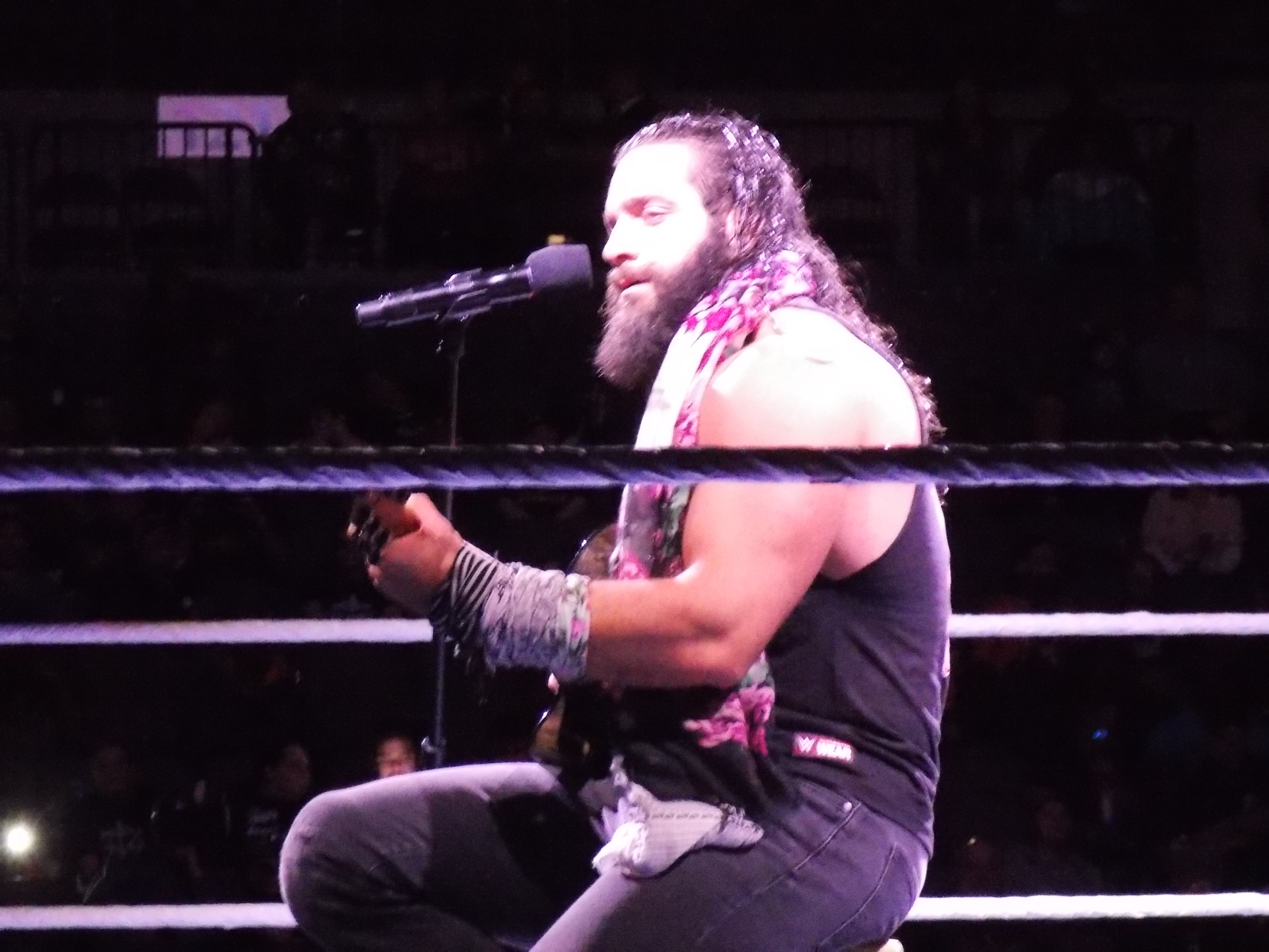 Elias at a WWE Live Event House Show in Omaha, Nebraska, USA on Sunday, February 4, 2018